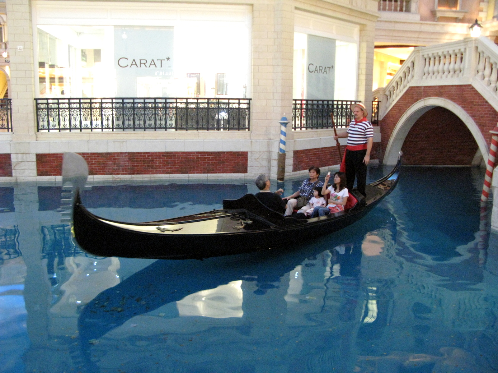 The Venetian Macao Gondola